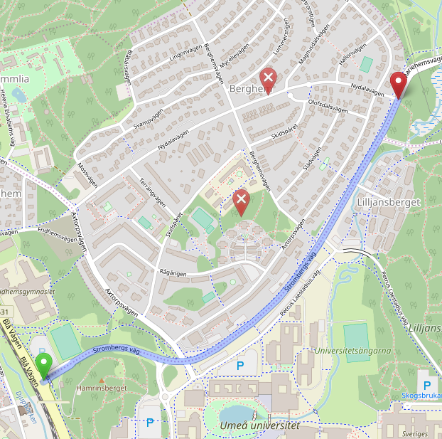 Strombergs väg – named after Council man Pehr Adam Stromberg – goes through eastern Umeå, from Blå vägen to the Mariehem area.